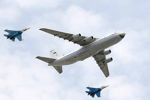 RED SQUARE, MOSCOW. Military parade marking the sixty-third anniversary of Victory in the Great Patriotic War.